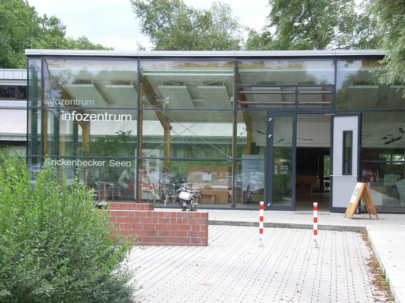 Nettetal, district of Viersen, North Rhine-Westphalia, Germany.